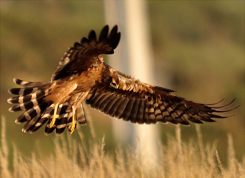 Juvenile Montagu's Harrier (Circus pygargus), Serra de Montedeiras